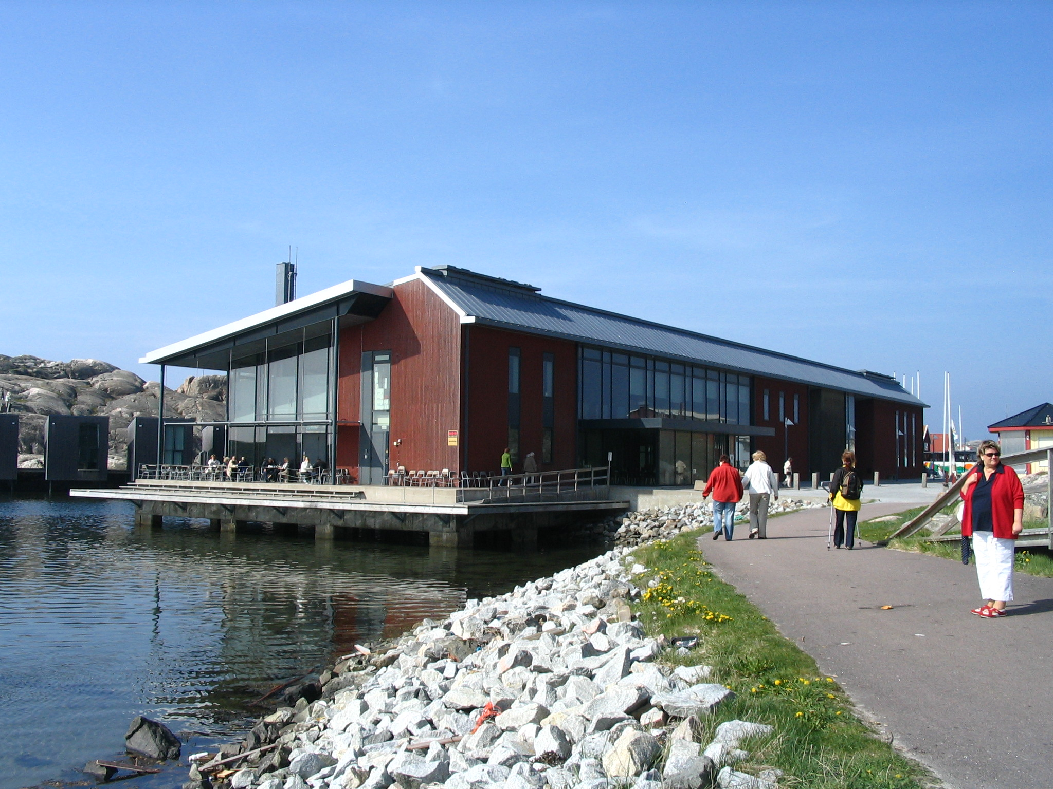 Aquarellmuseum in the village of Skärhamn on the isle of Tjörn, Sweden